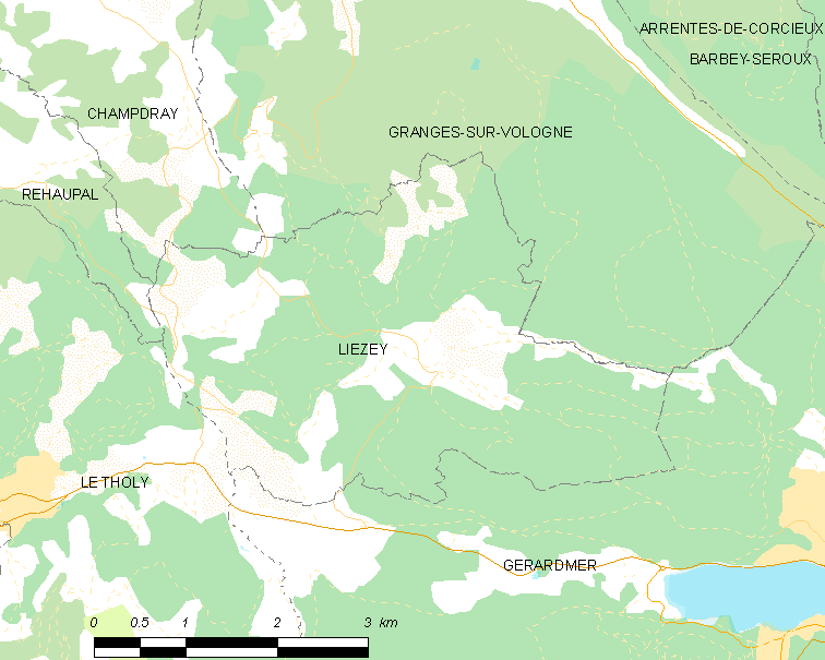 Map of French municipality Liézey